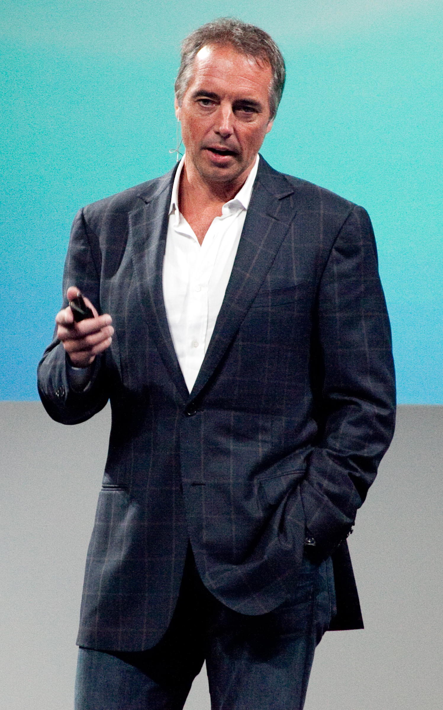 Dan Buettner speaking at The UP Experience 2010 in October 2010.